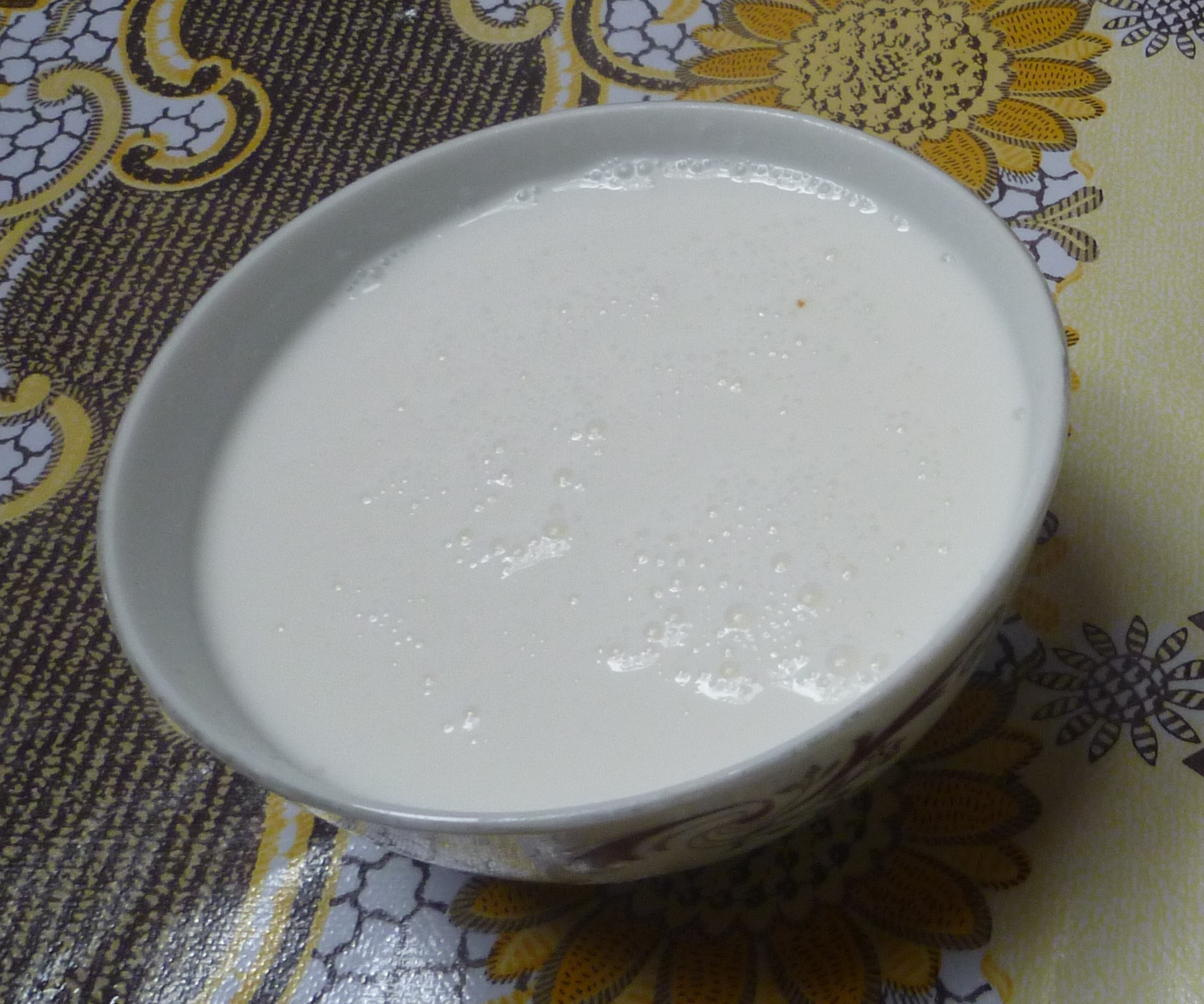 Shubat